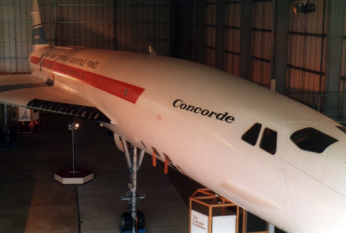 The Concorde